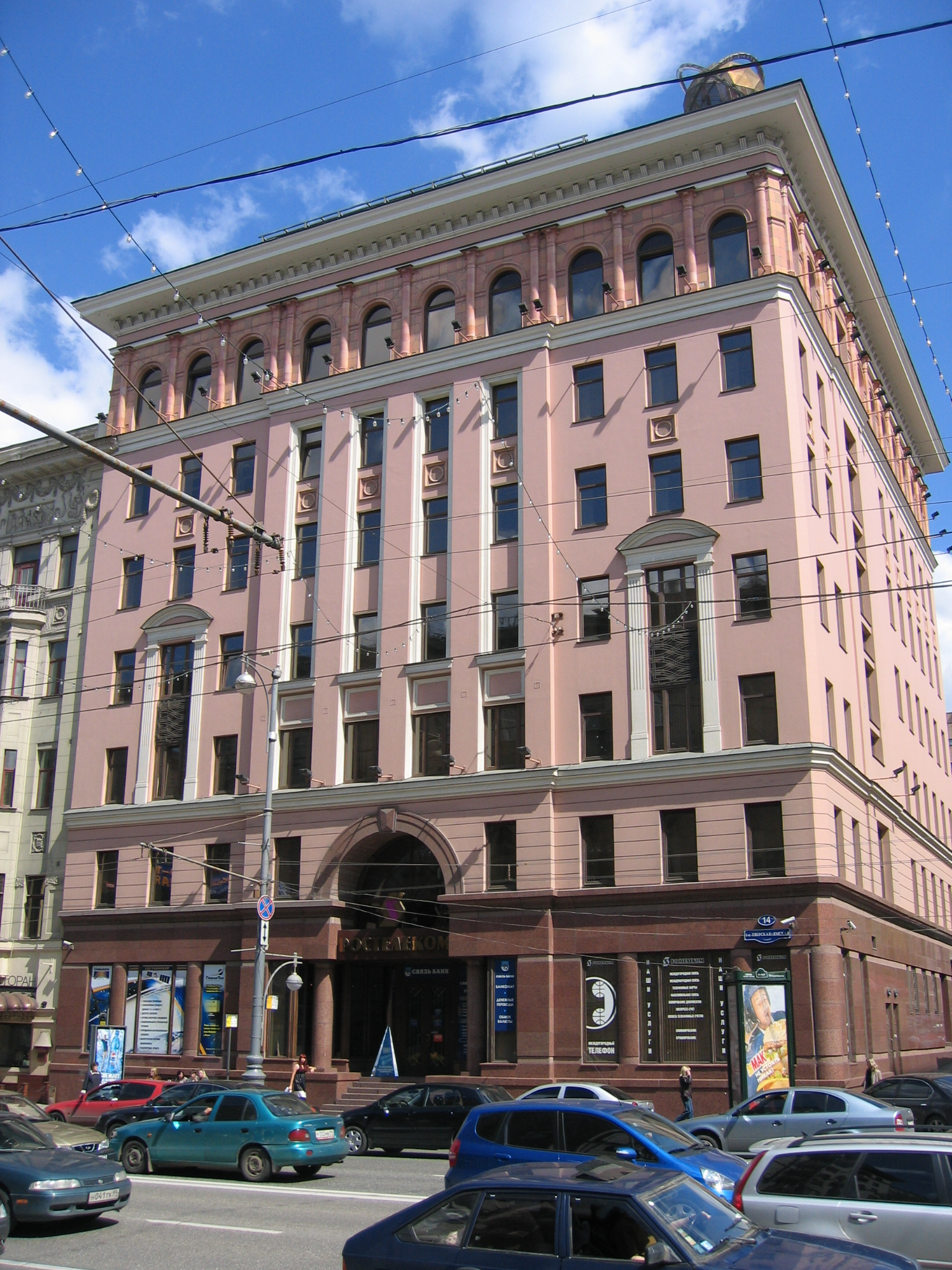 Former Rostelecom head office, Moscow